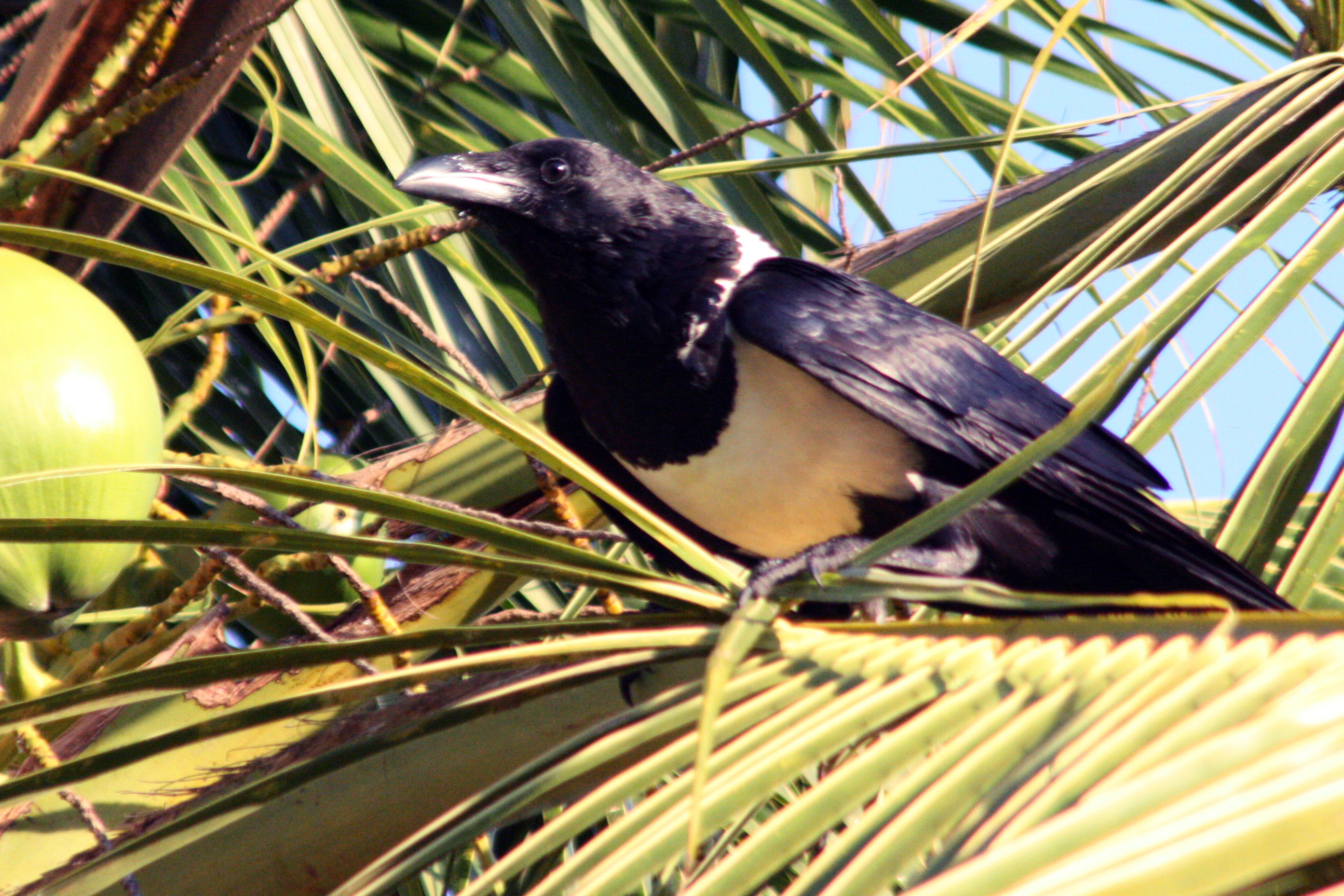 Pied crow (Corvus albus) in Anjajavy Forest, Madagascar